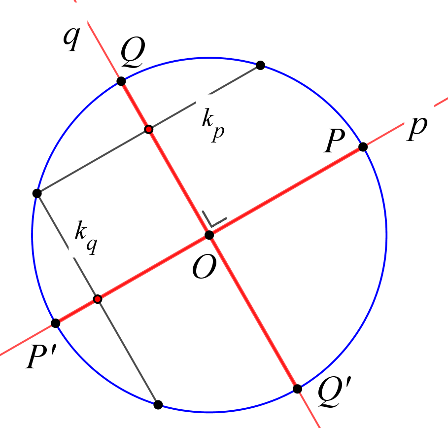 Example 1